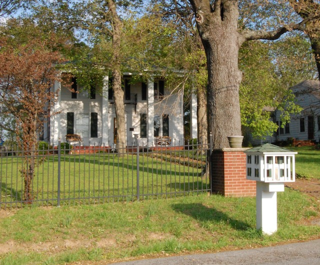 Oak Hill, built by Potillia Calvert, founder of Calvert City, Ky.